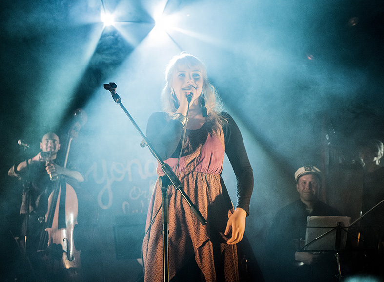 'Vaikka tekee kipeää, ei haittaa' -levynjulkaisukiertue 2012